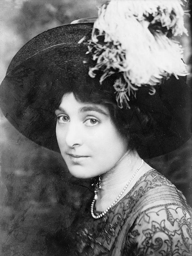 Bain News Service/LOC ggbain.07321. Lady Ashburton